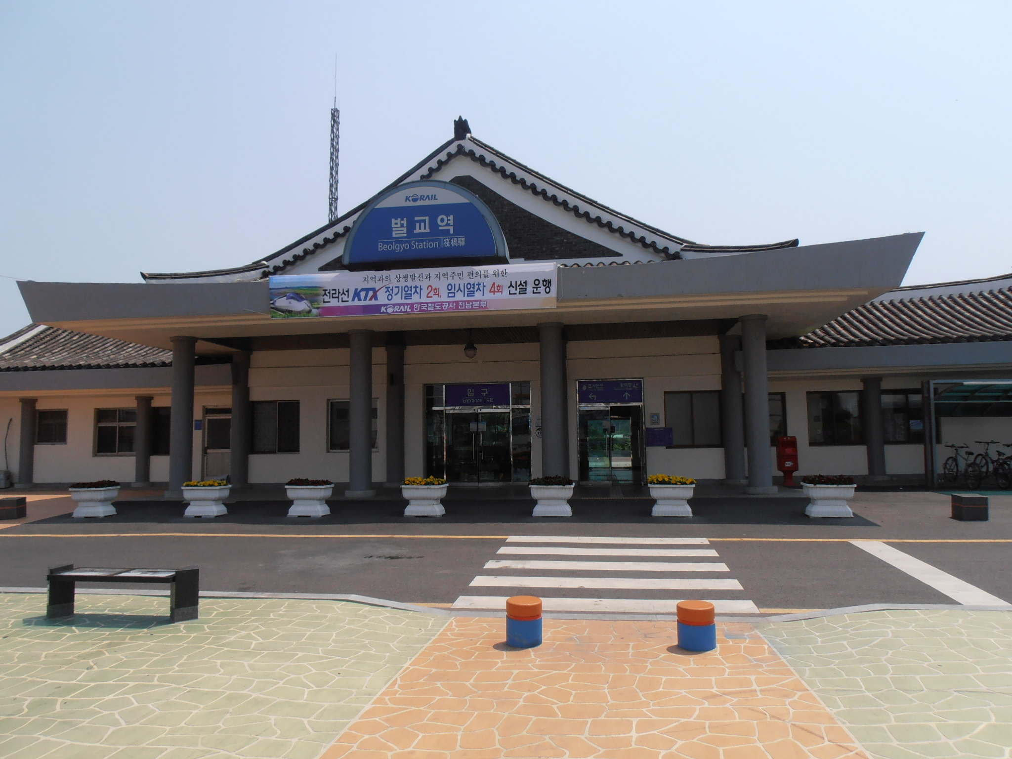 Street side of Beolgyo Station (Gyeongjeon Line), (Beolgyo-eup, Boseong-gun, Jeollanam-do, South Korea)